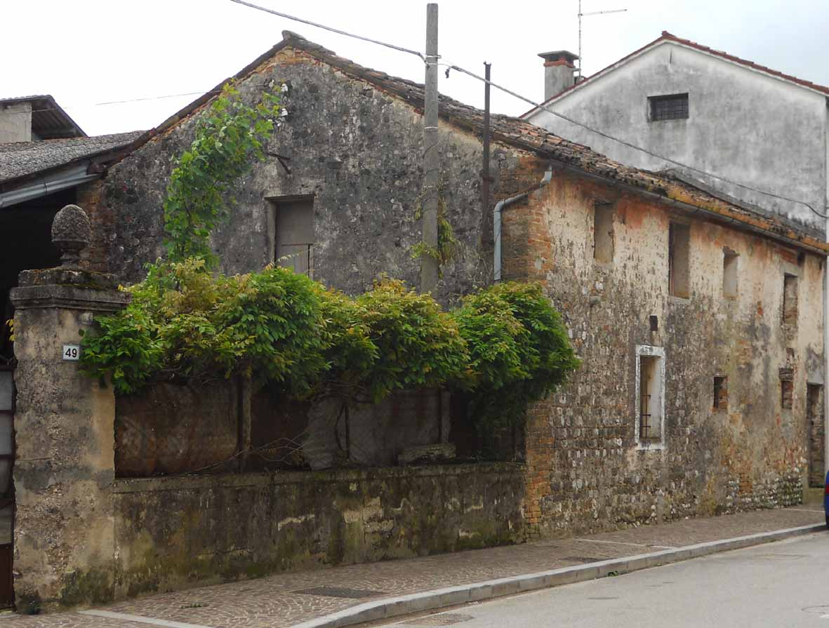 S.Maria_la_Longa,_casa_Pontoni